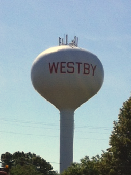 The municipal water tower in Westby, Wisconsin